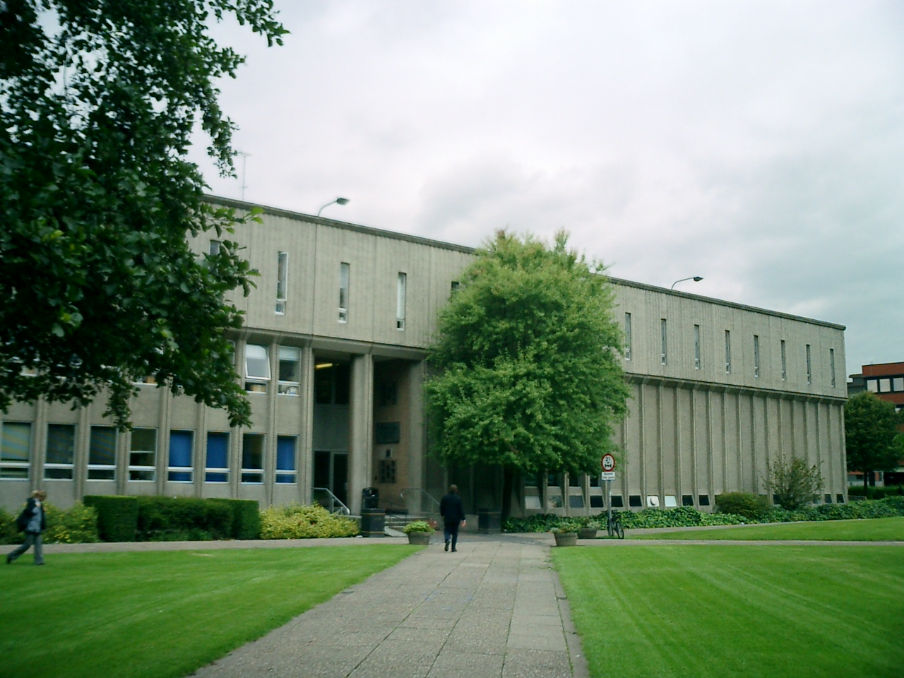 Manchester School of Architecture. The Architecture and Planning Building, opened 1970, was designed by Professors N. L. Hanson and R. H. Kantorowich. Hartwell, Clare (2001), Manchester, Pevsner Architectural Guides, Penguin Books, pp. 116–17.